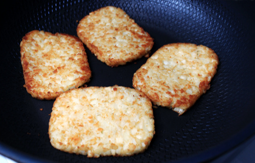 Potato patties/cakes